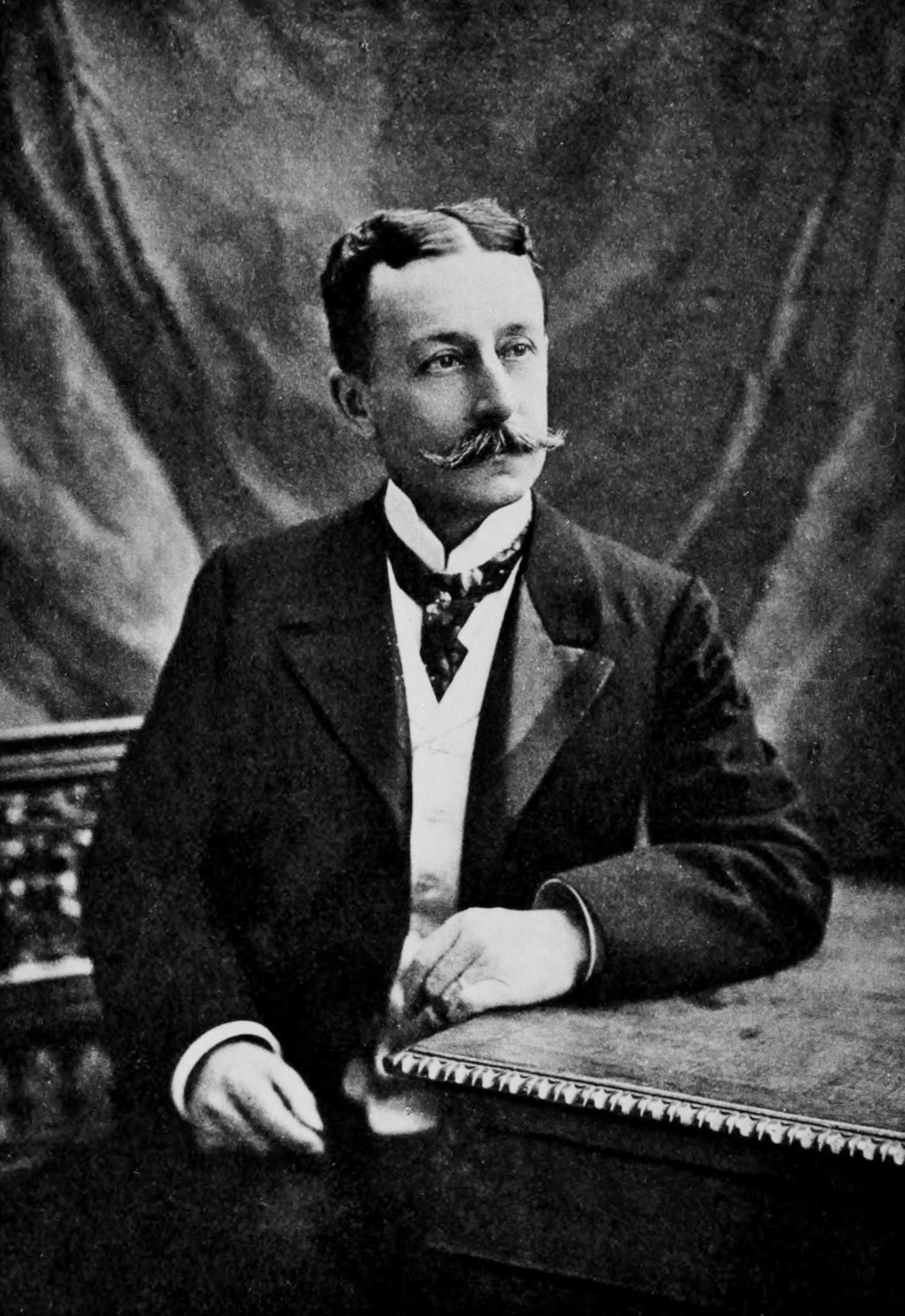 Rene Bazin